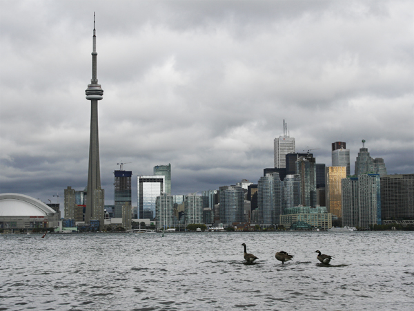 Skyline Toronto with Canadian Geese seen from Ward's Island.